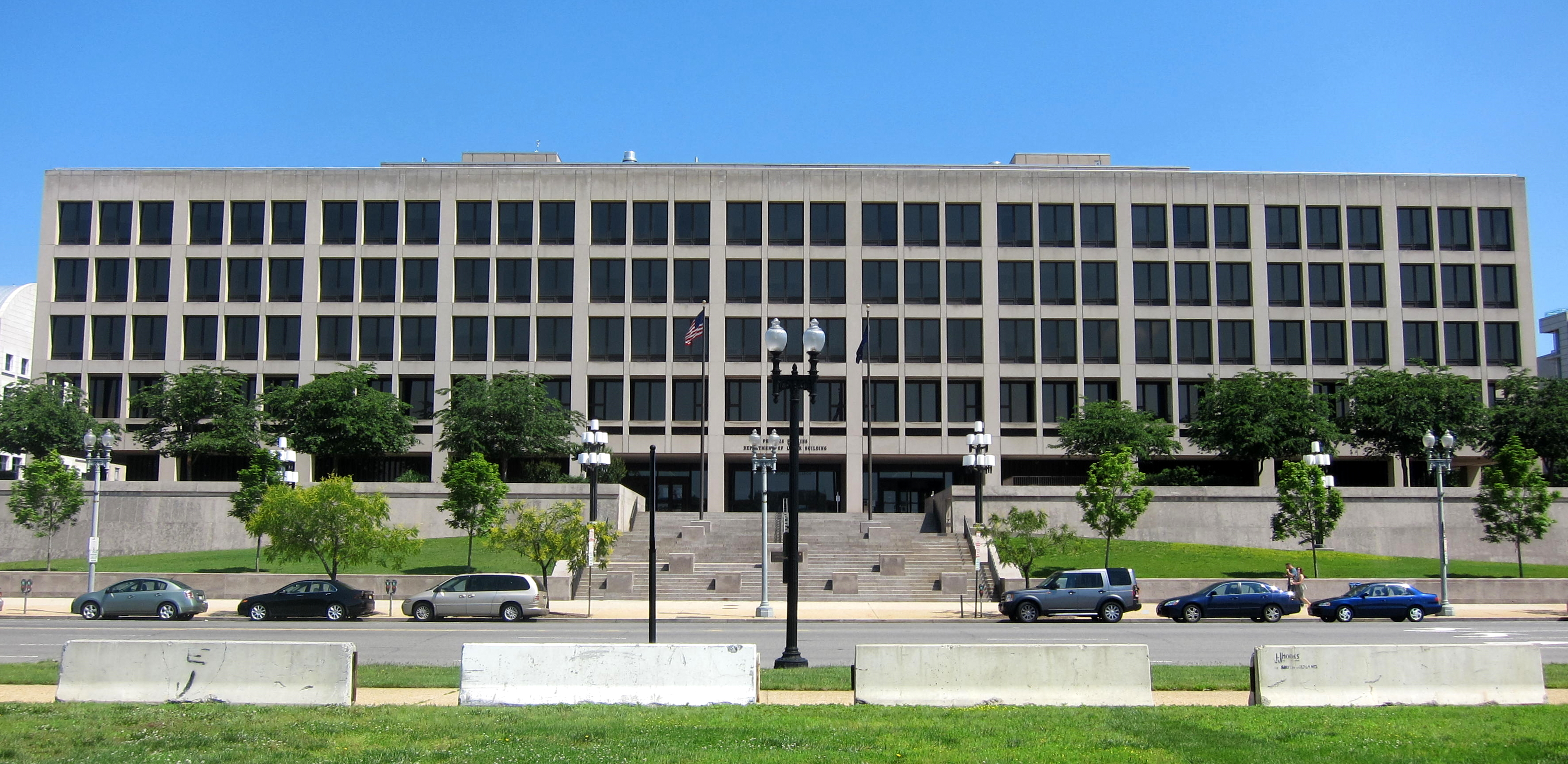 The Frances Perkins Building located at 200 Constitution Avenue, N.W., in the Capitol Hill neighborhood of Washington, D.C.. Built in 1975, the modernist office building serves as headquarters of the United States Department of Labor.